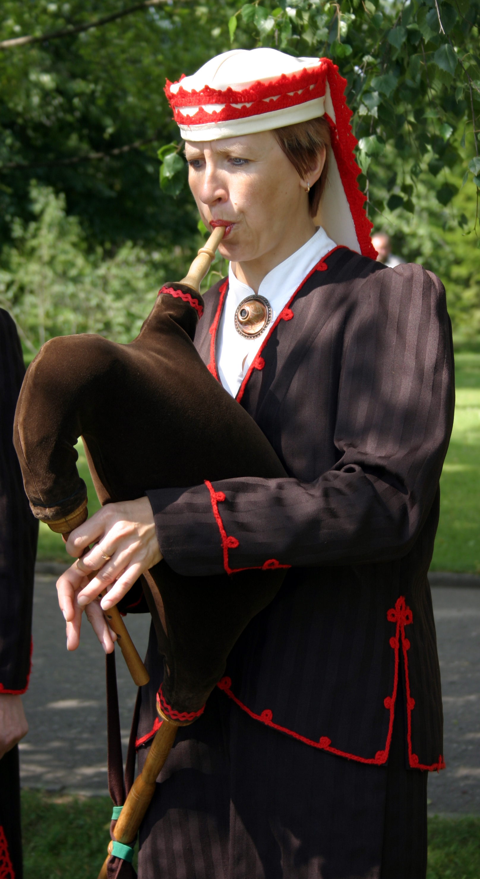 Estonian bagpiper